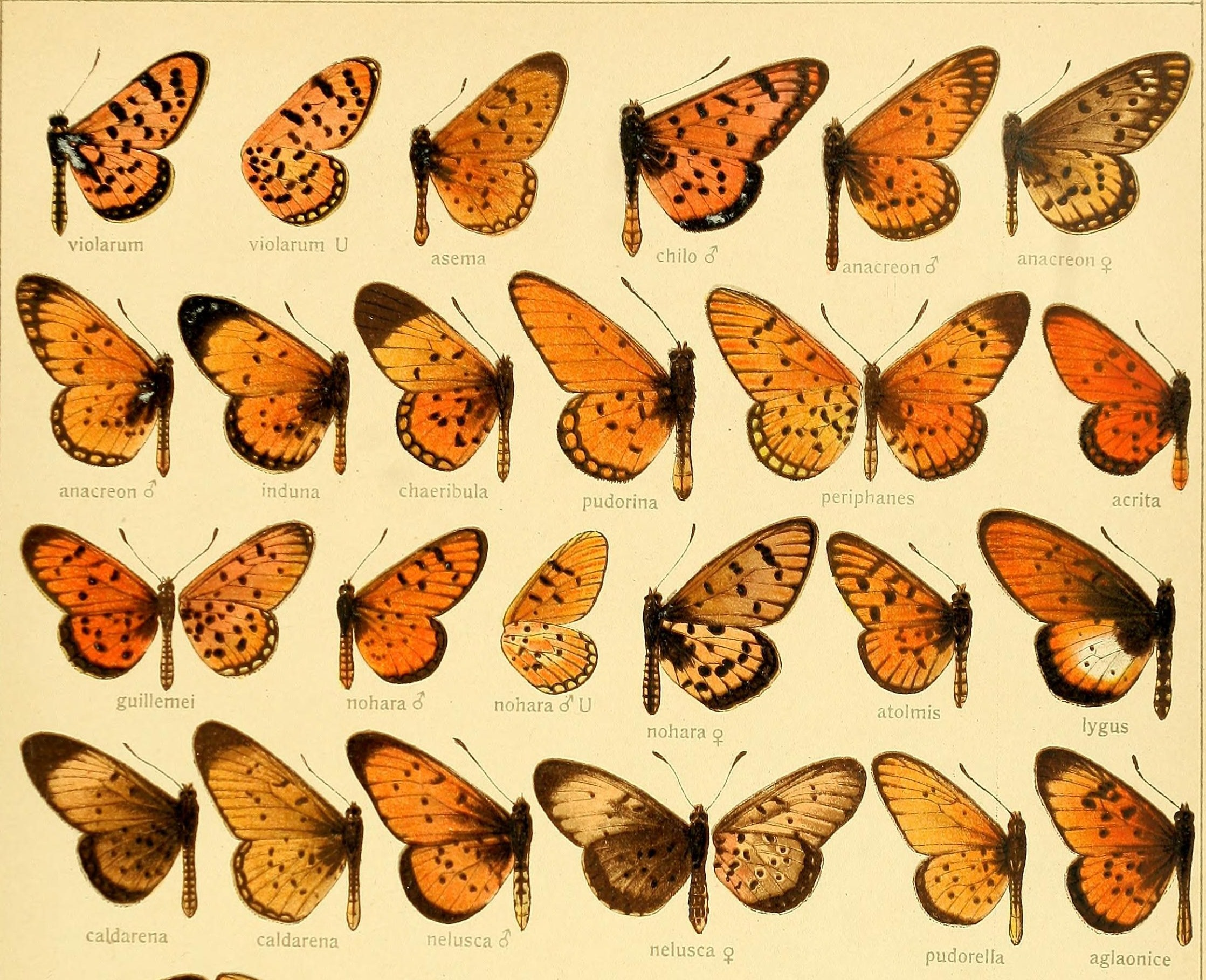 AcraeaSpecies